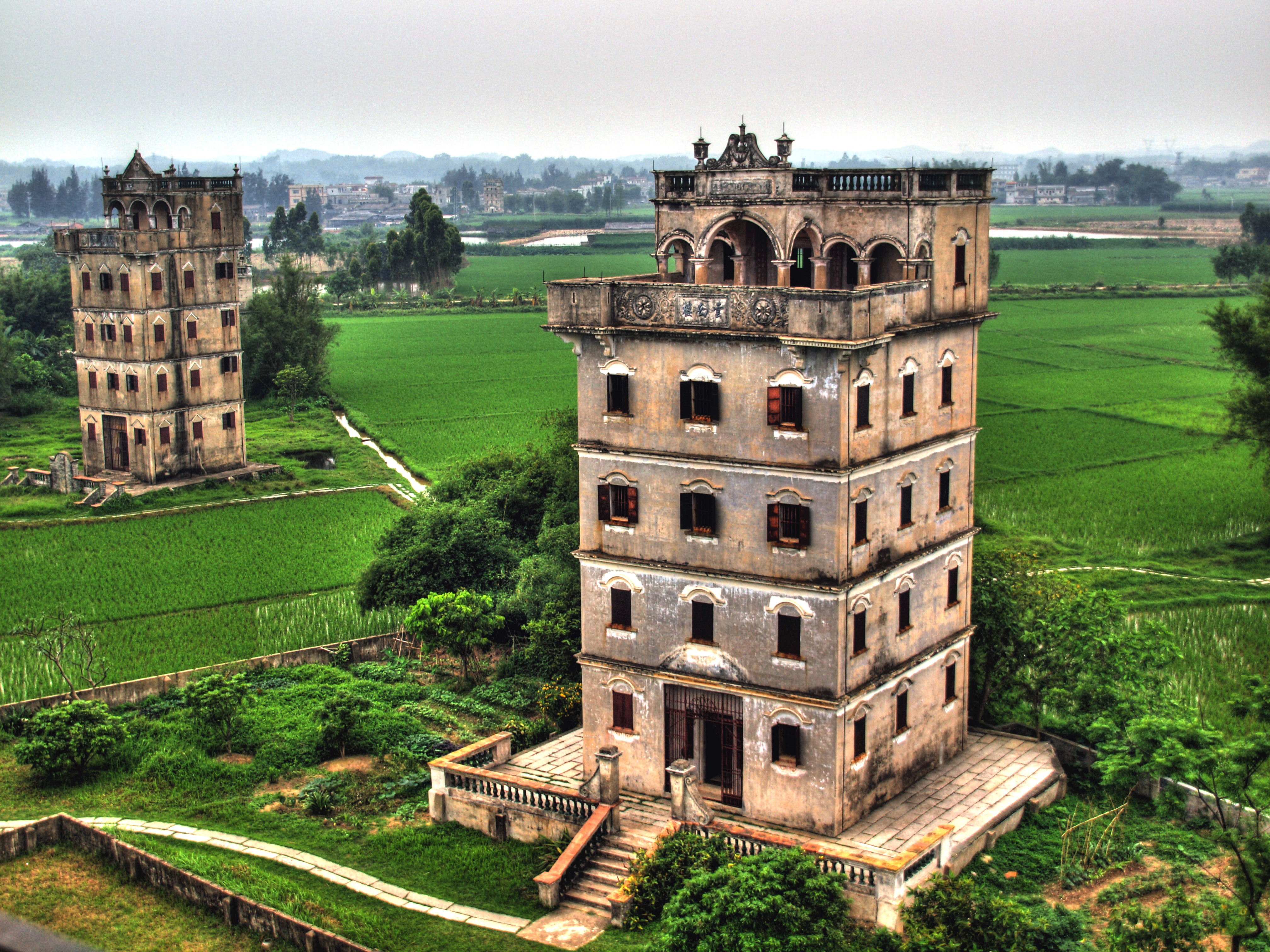 Kaiping Diaolou